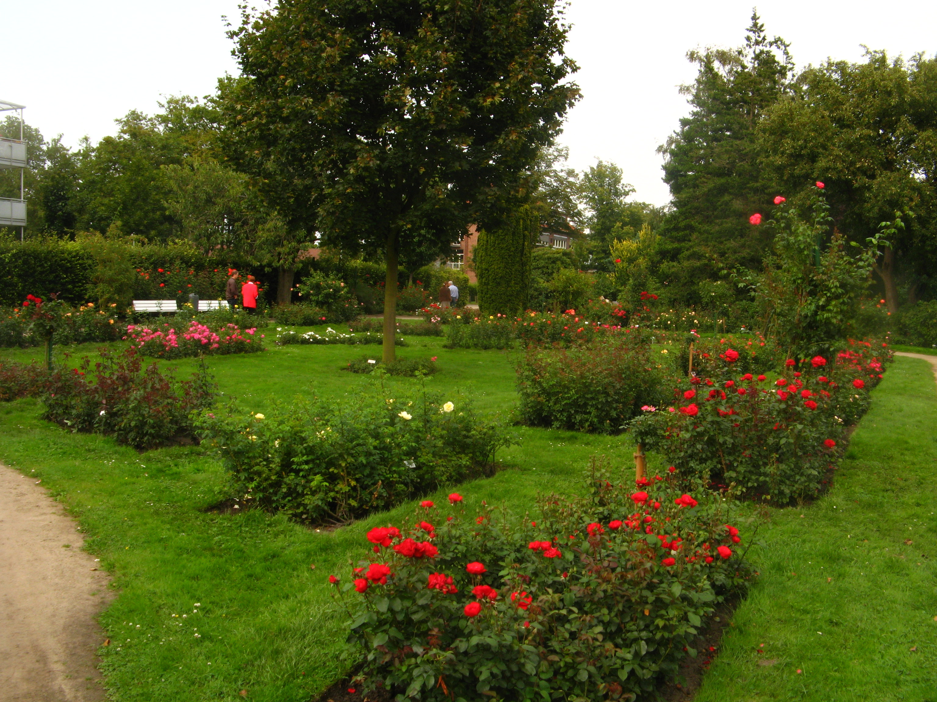 fields at the Uetersen Rosarium